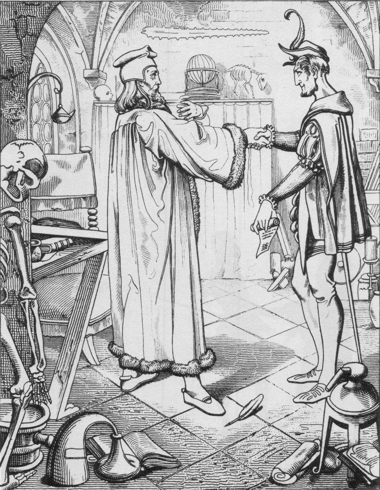 Faust's pact with Mephisto after Goethe's “Faust”, engraving